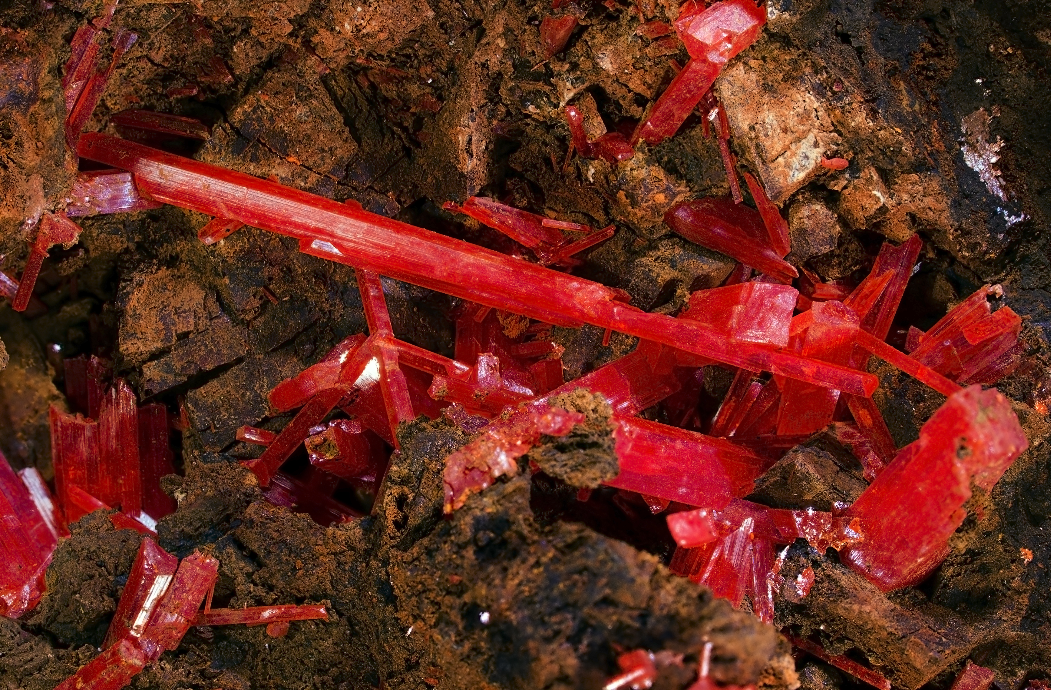 Crocoite Locality: Adelaide Mine (Adelaide Pty Mine; Adelaide Proprietary Mine), Dundas mineral field, Zeehan District, Tasmania, Australia Size of view : 3.5 cm